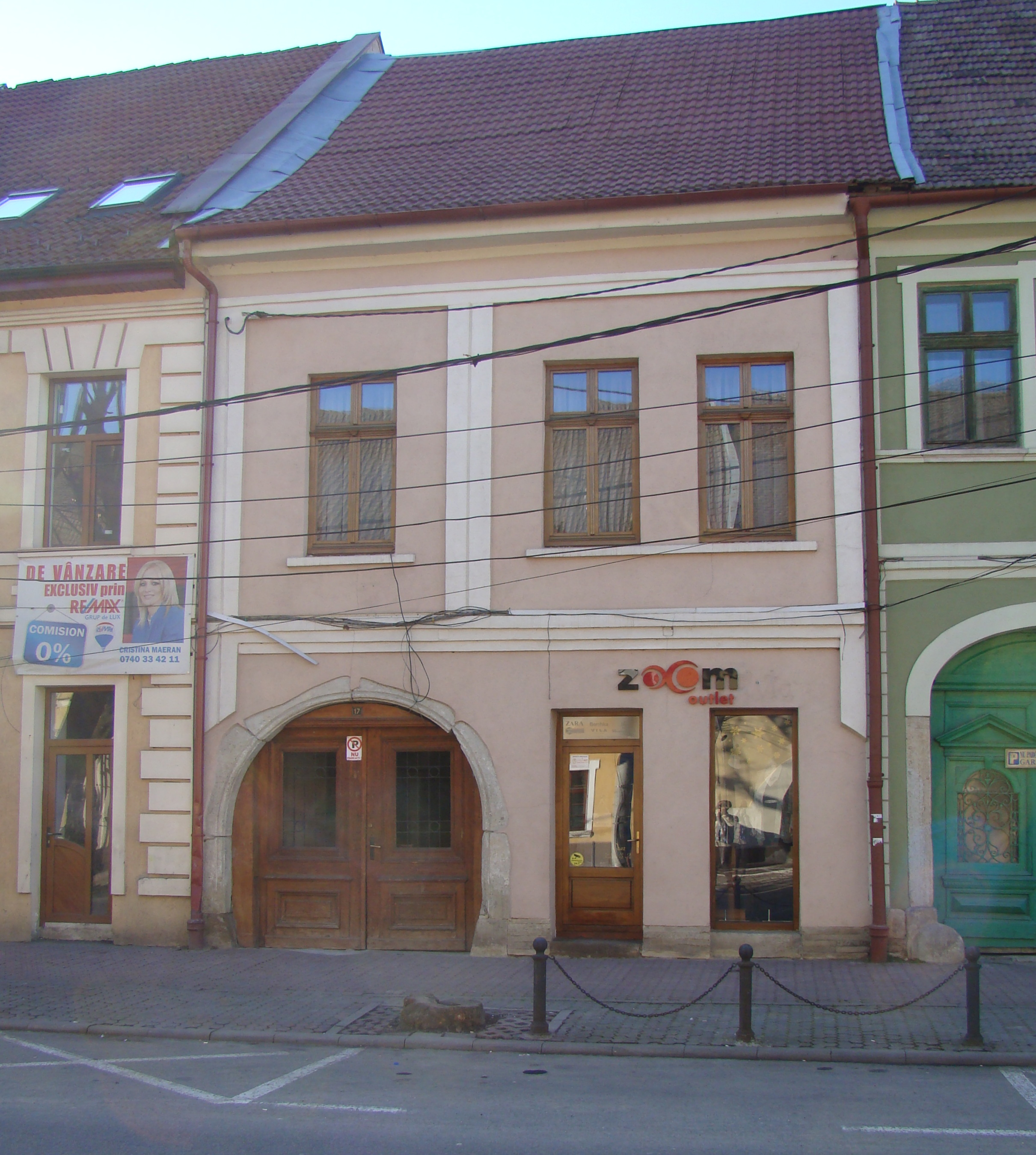 House, historic monument, in Bistriţa, Dornei street, number 17